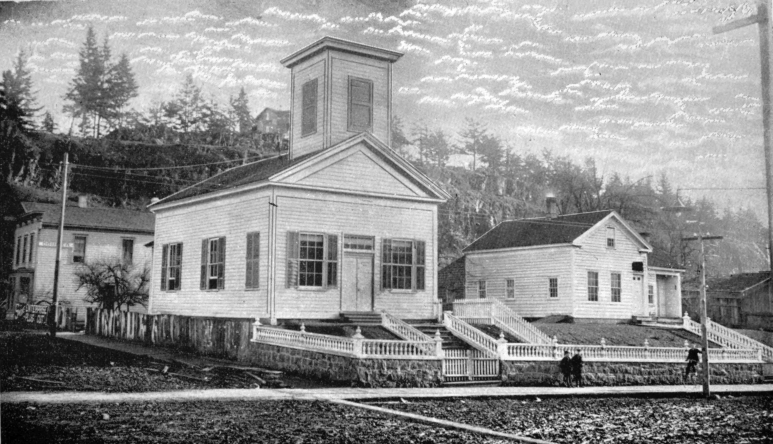 Methodist Church in Oregon City, Oregon. First church in what became Oregon.